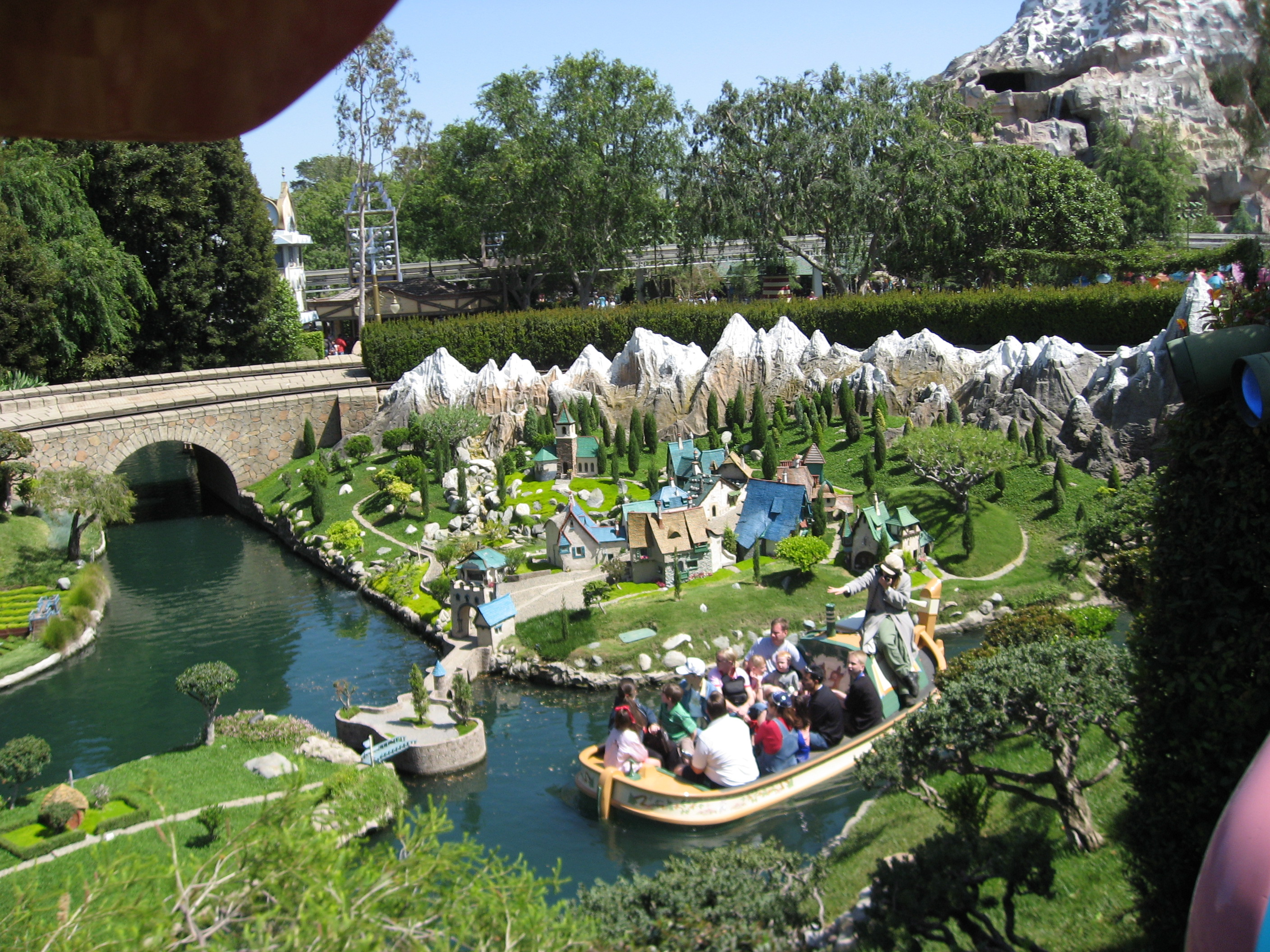 View of Storybook Land Canal Boats ride vehicle and display at Disneyland.